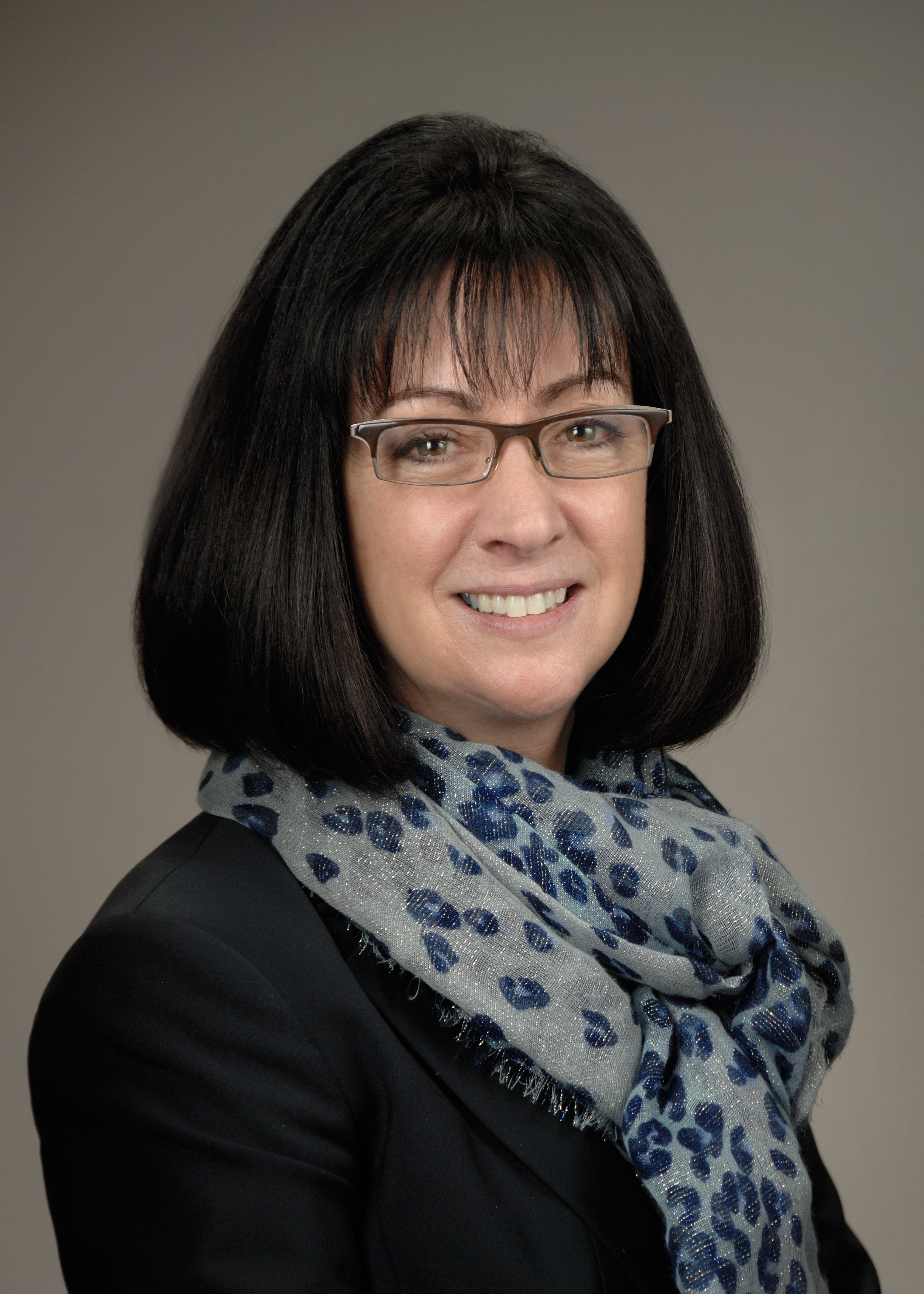 Dr. Nancy Sullivan has been the Chief of the Biodefense Research Section at the Vaccine Research Center in the National Institute of Allergies and Infectious Diseases since 2004. Her work has focused on creating vaccines against hemorrhagic fever viruses such as ebola and in understanding immunity to filoviruses.